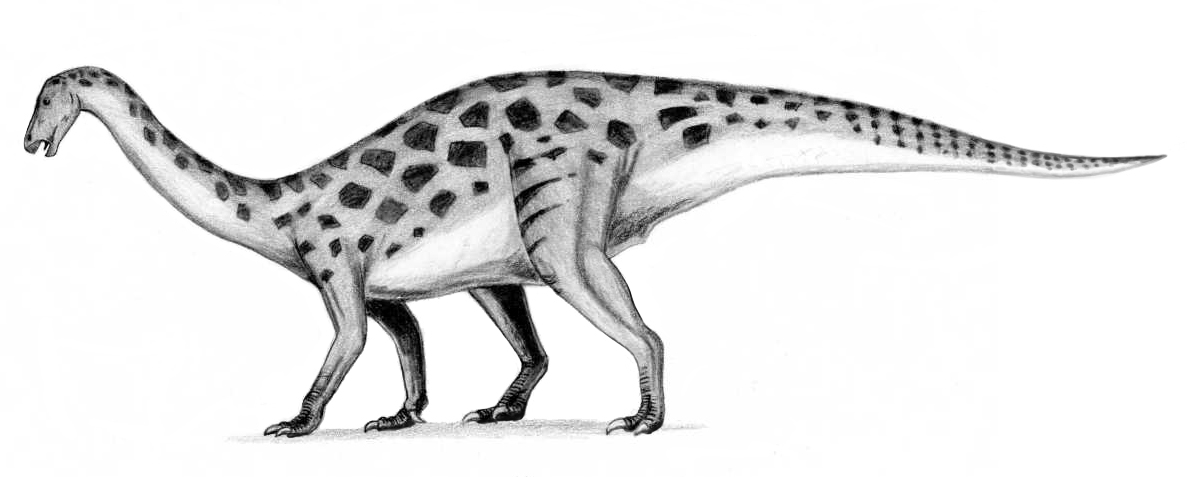 Outdated quadrupedal and prosauropod-like Erlikosaurus, following Gregory S. Paul's 1988 segnosaur skeletal reconstruction (in Predatory Dinosaurs of the World, p. 464).